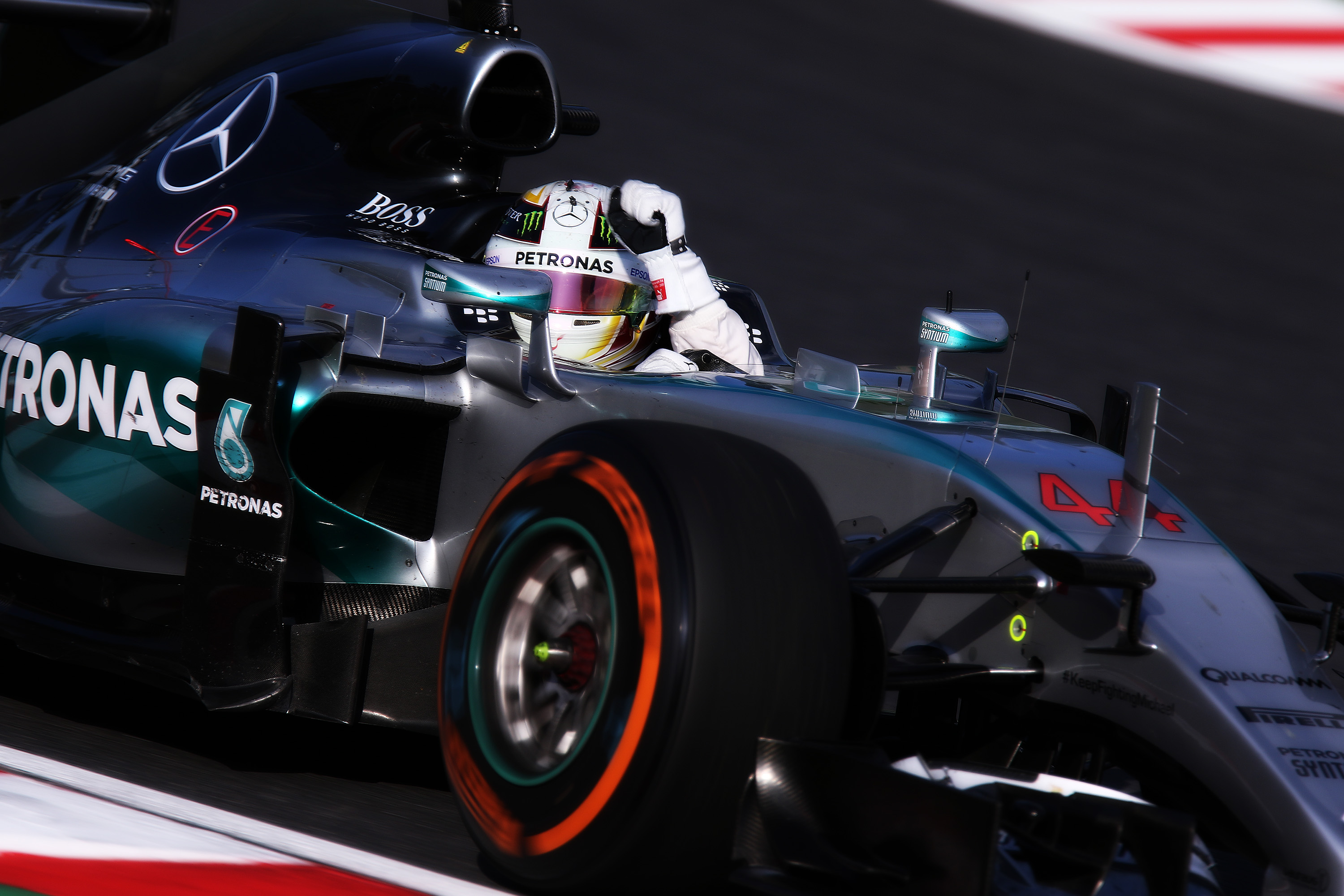 Winning Run!! (#44 Lewis Hamilton)